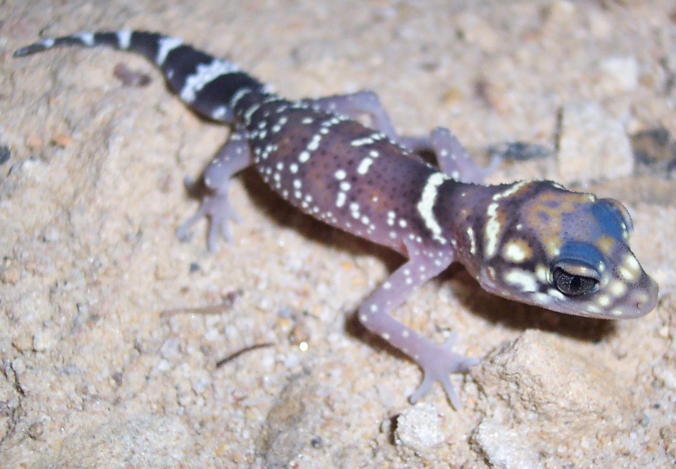 A Thick Tailed Gecko, (Underwoodisaurus milii) from northern Sydney.